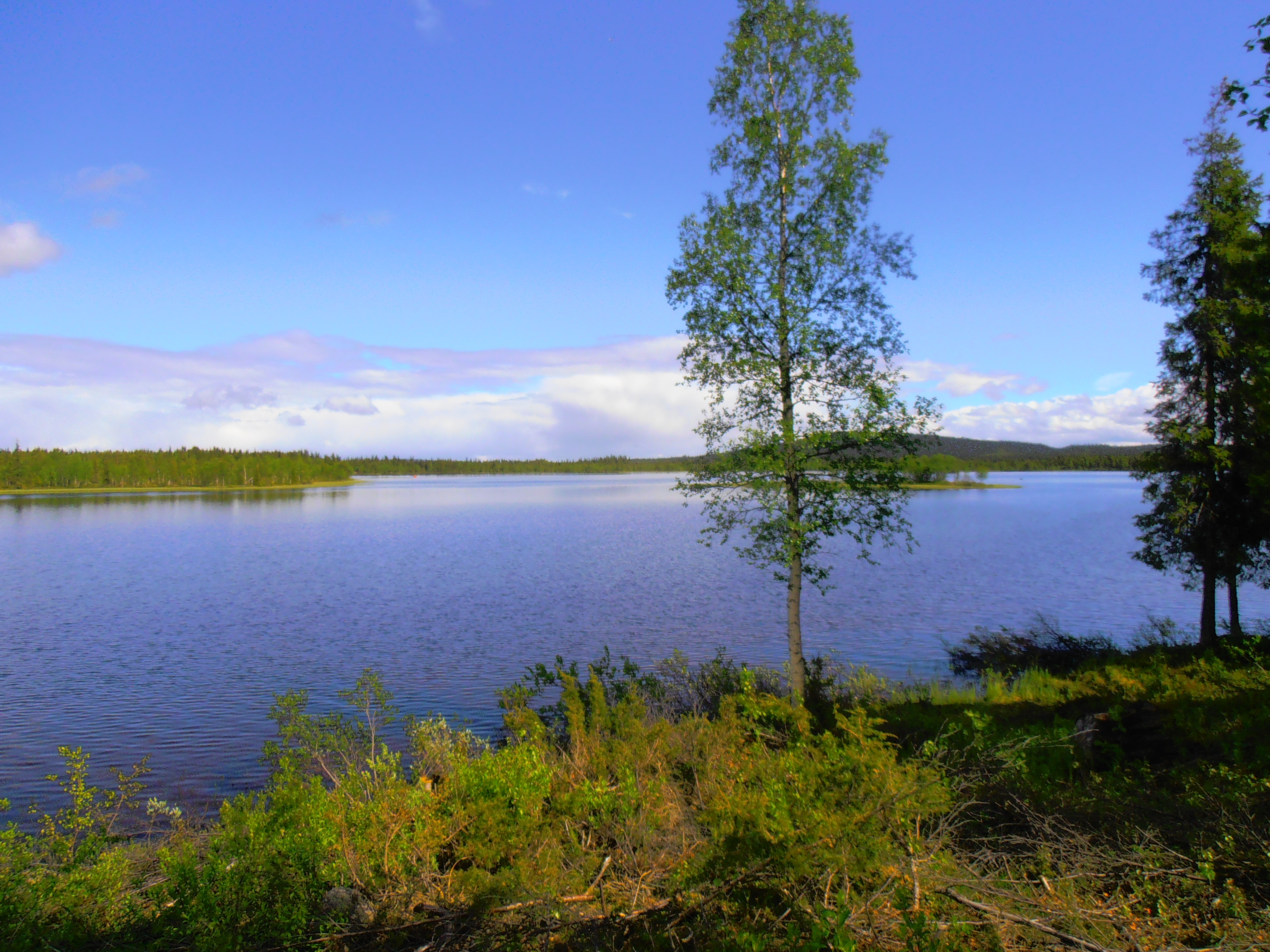 Moskojärvi lake, Moskojärvi